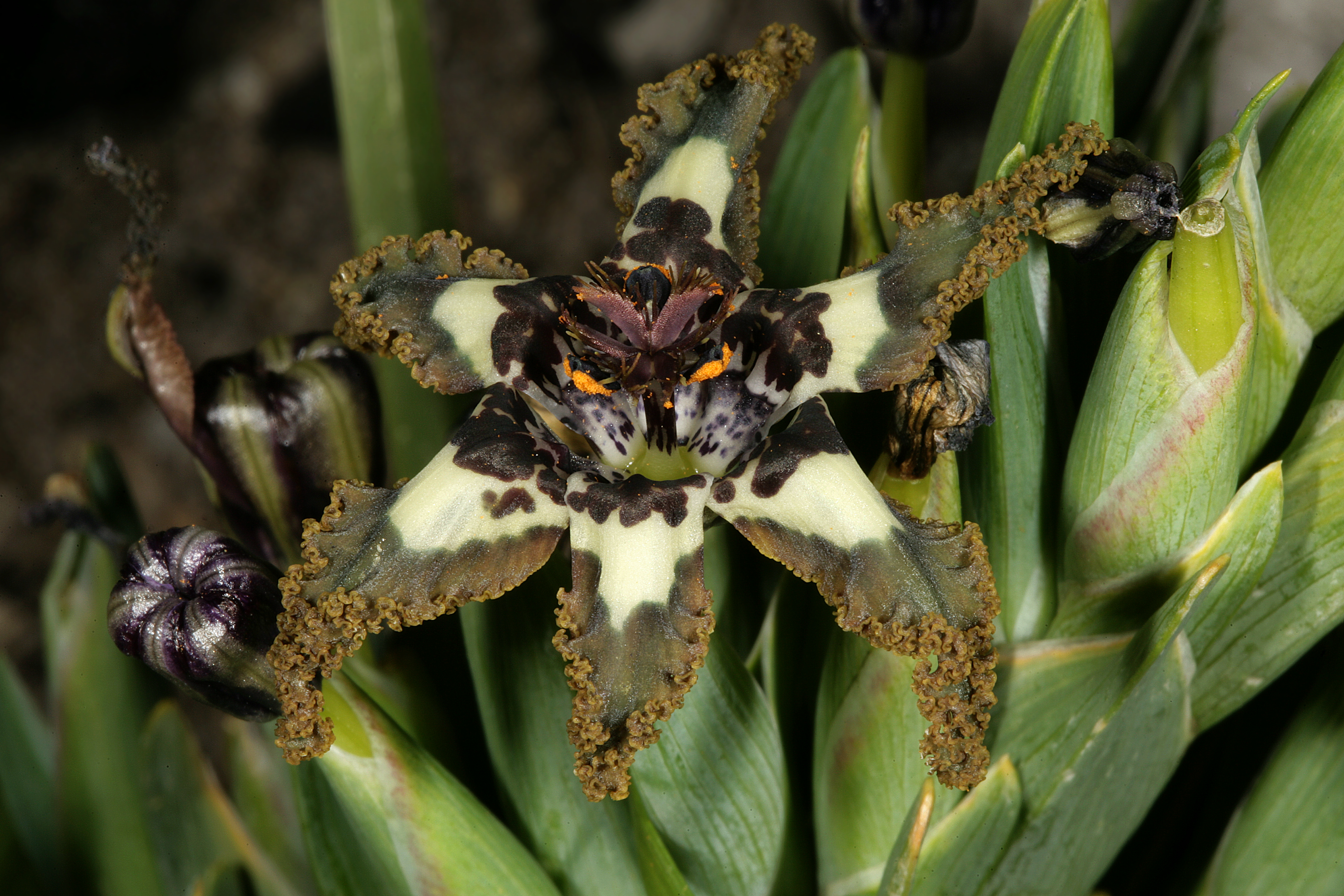 Ferraria crispa, flower; Hoy's Koppie (planted in garden section), Hermanus, Western Cape, South Africa